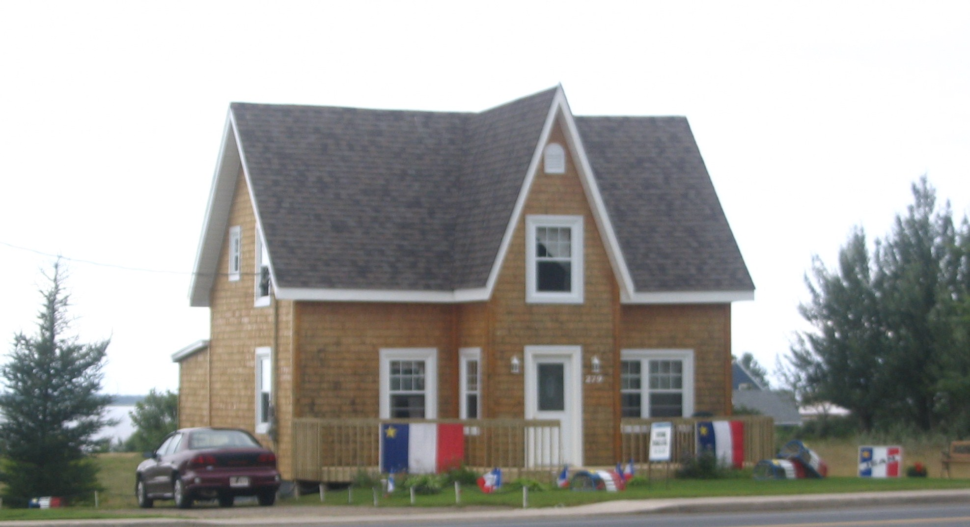 The house of Théotime Blanchard (1844-1911) in Caraquet, New Brunswick, Canada.